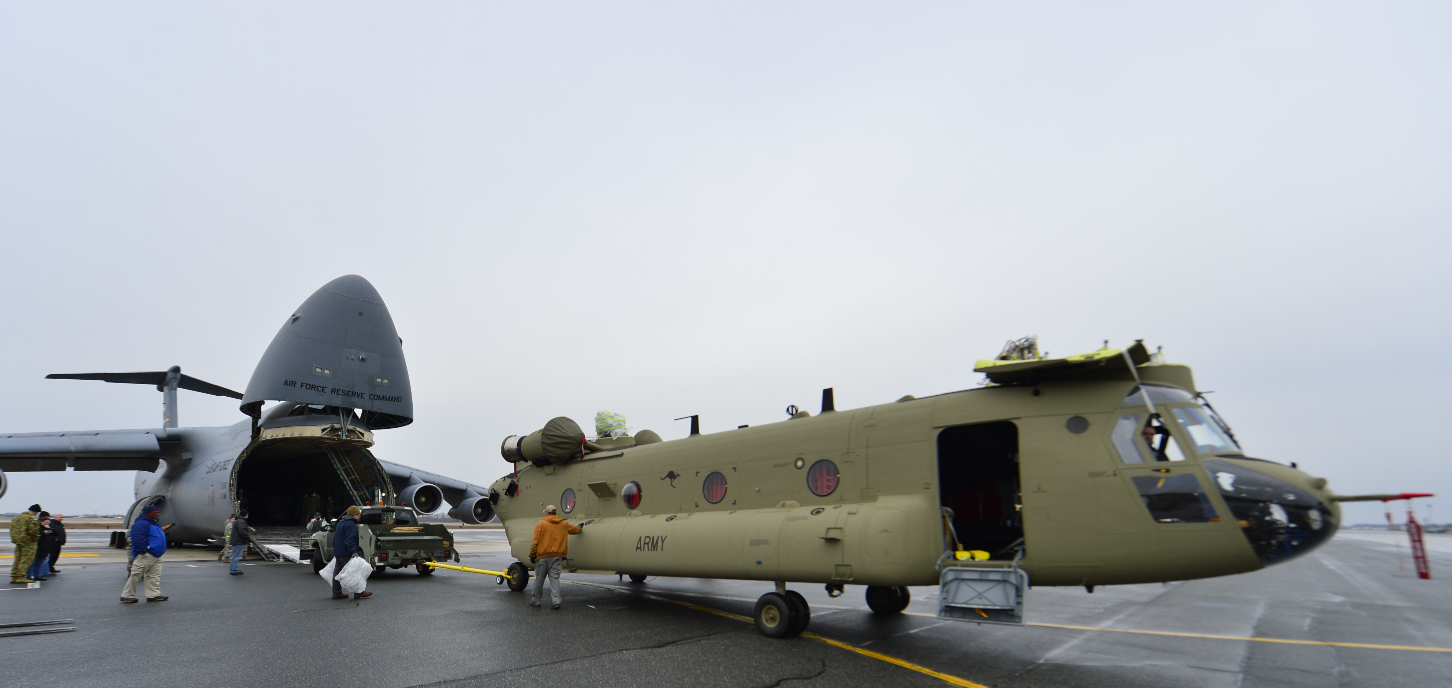 Members of Team Dover and the 337th Airlift Squadron, Westover Air Reserve Base, Mass., load two Boeing Chinook CH-47Fs into a C-5 Super Galaxy March 27, 2015, at Dover Air Force Base, Del. Each helicopter weighted just shy of 24,000 pounds and were being shipped to the Australian Army. (U.S. Air Force photo/Airman 1st Class William Johnson)